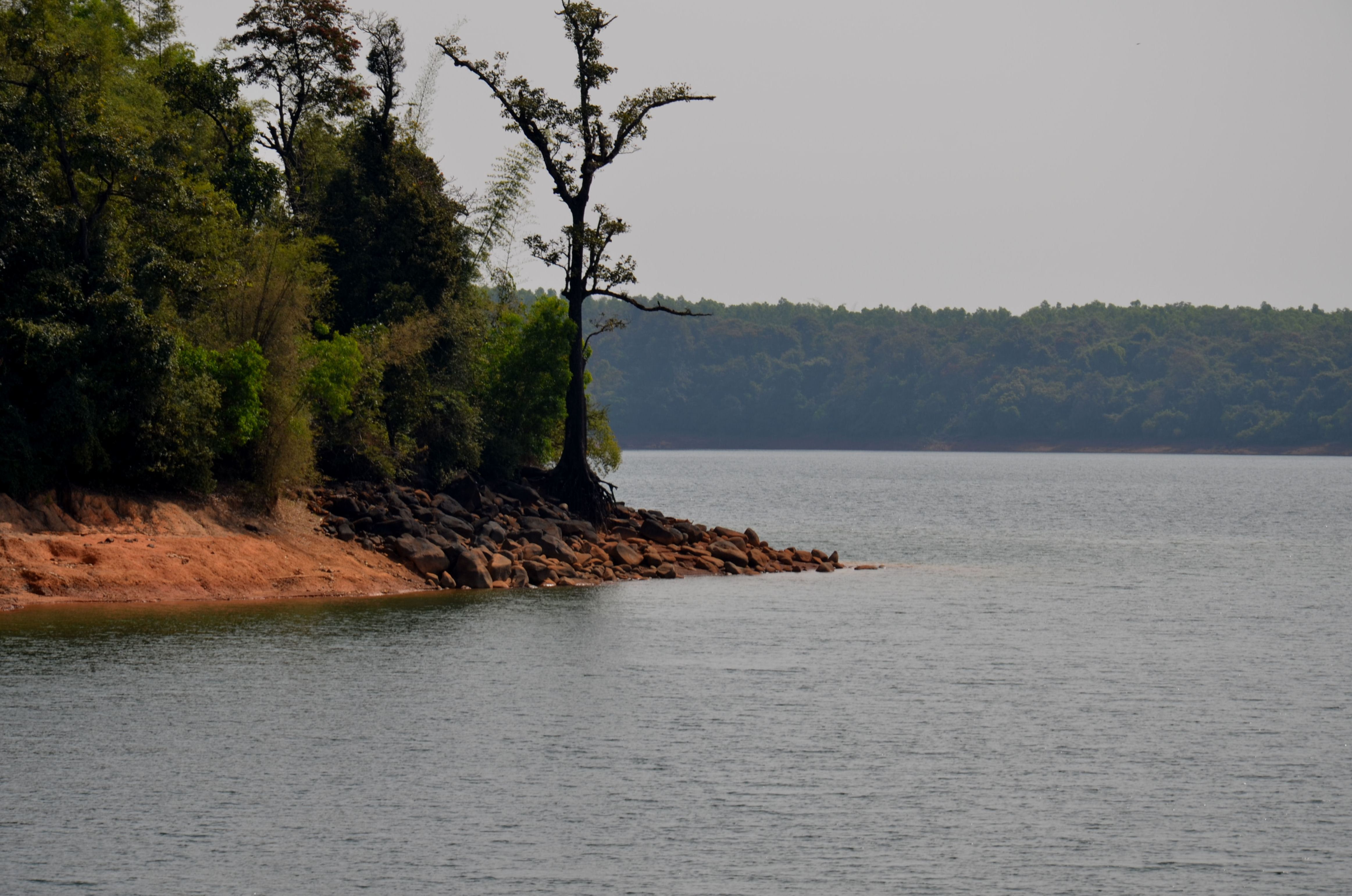 These pics were taken at Honnemaradu